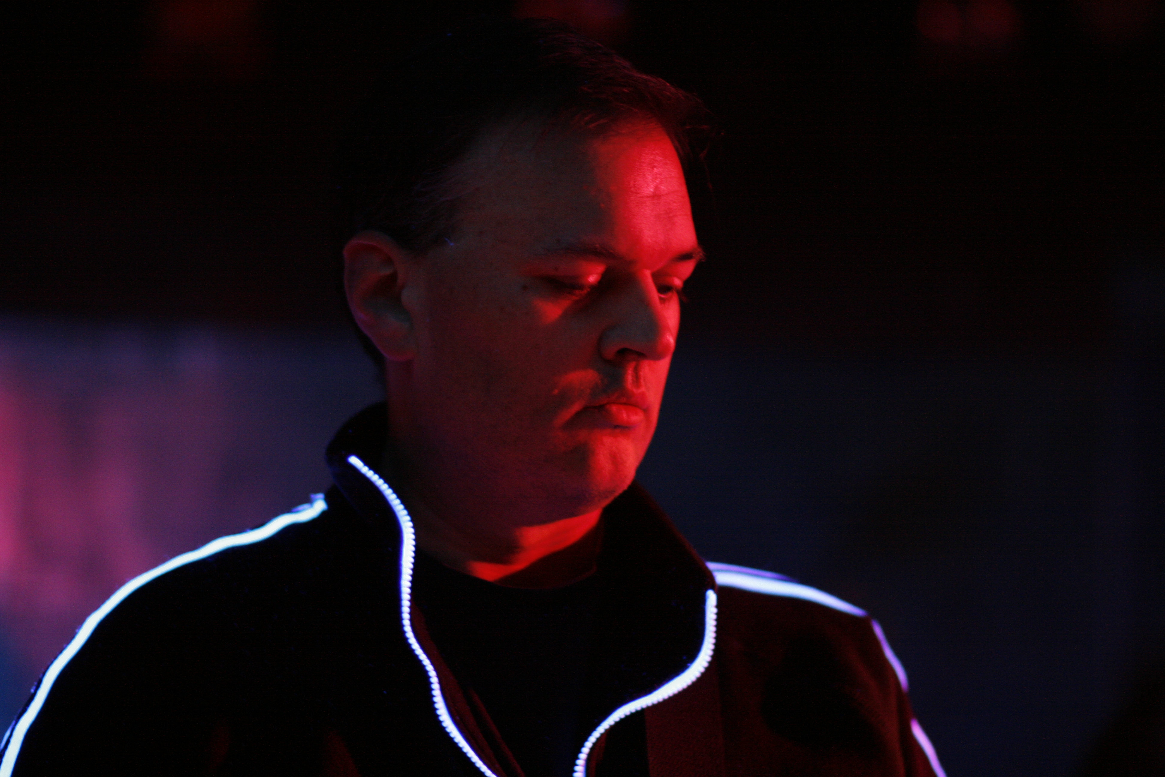 Guerre Froide Live at The Klub in Paris